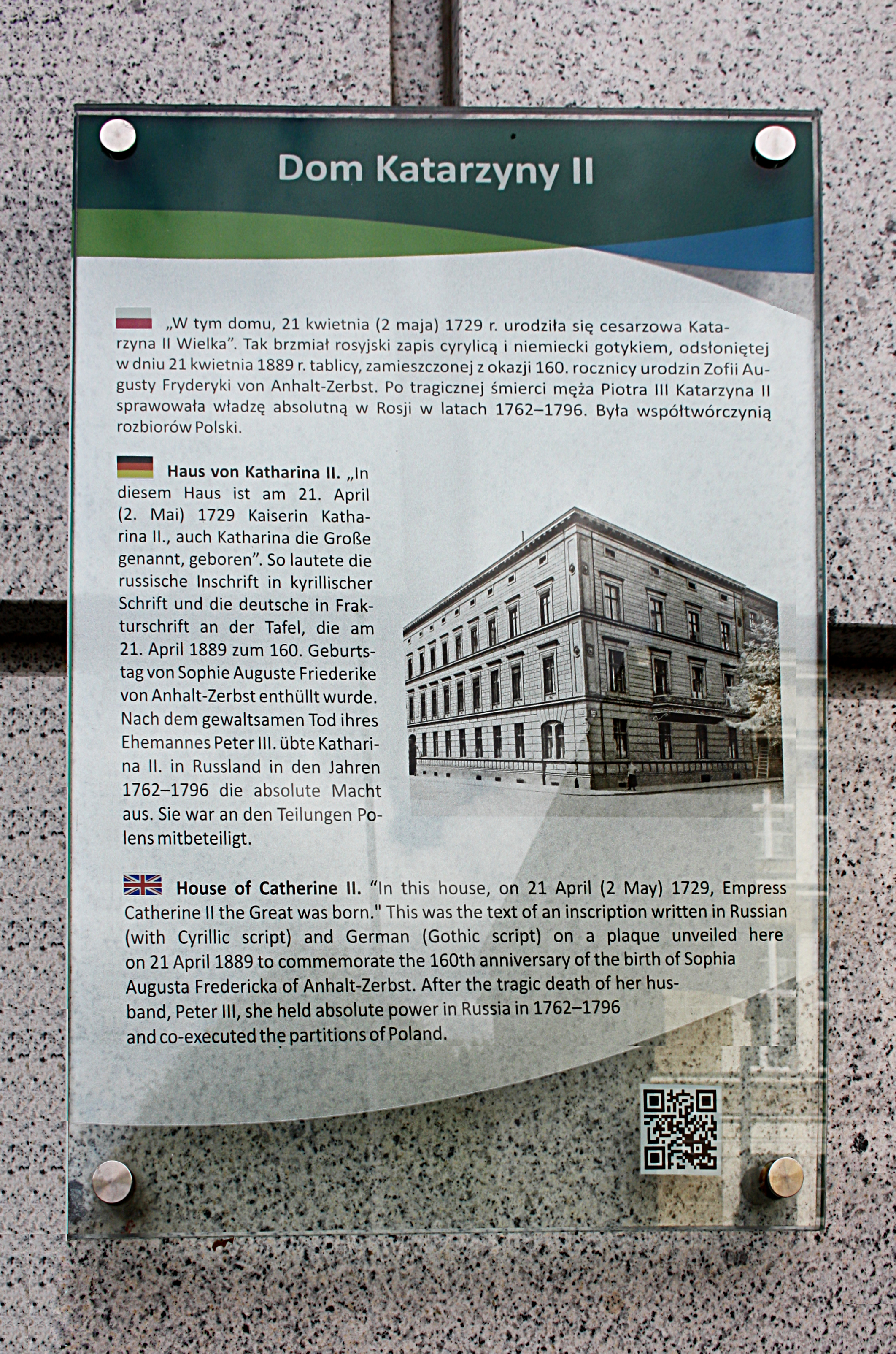 Birthplace of Catherine II (Stettin, Domstraße 791, now: Szczecin, ulica Farna 1)